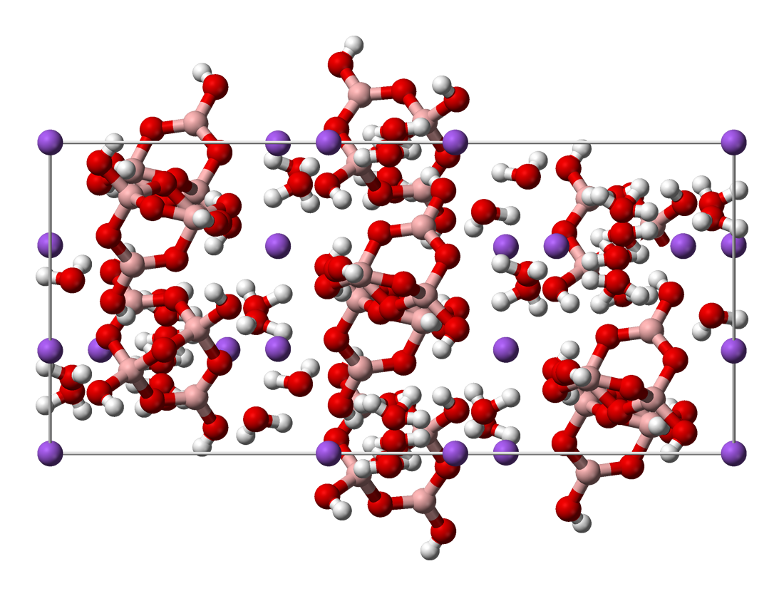 Ball-and-stick model of the unit cell of tincalconite, Na2[B4O5(OH)4]·3H2O. Crystal structure data from Luck R L, Wang G (2002). "On the nature of tincalconite". American Mineralogist 87: 350-354. Image generated in Accelrys DS Visualizer.